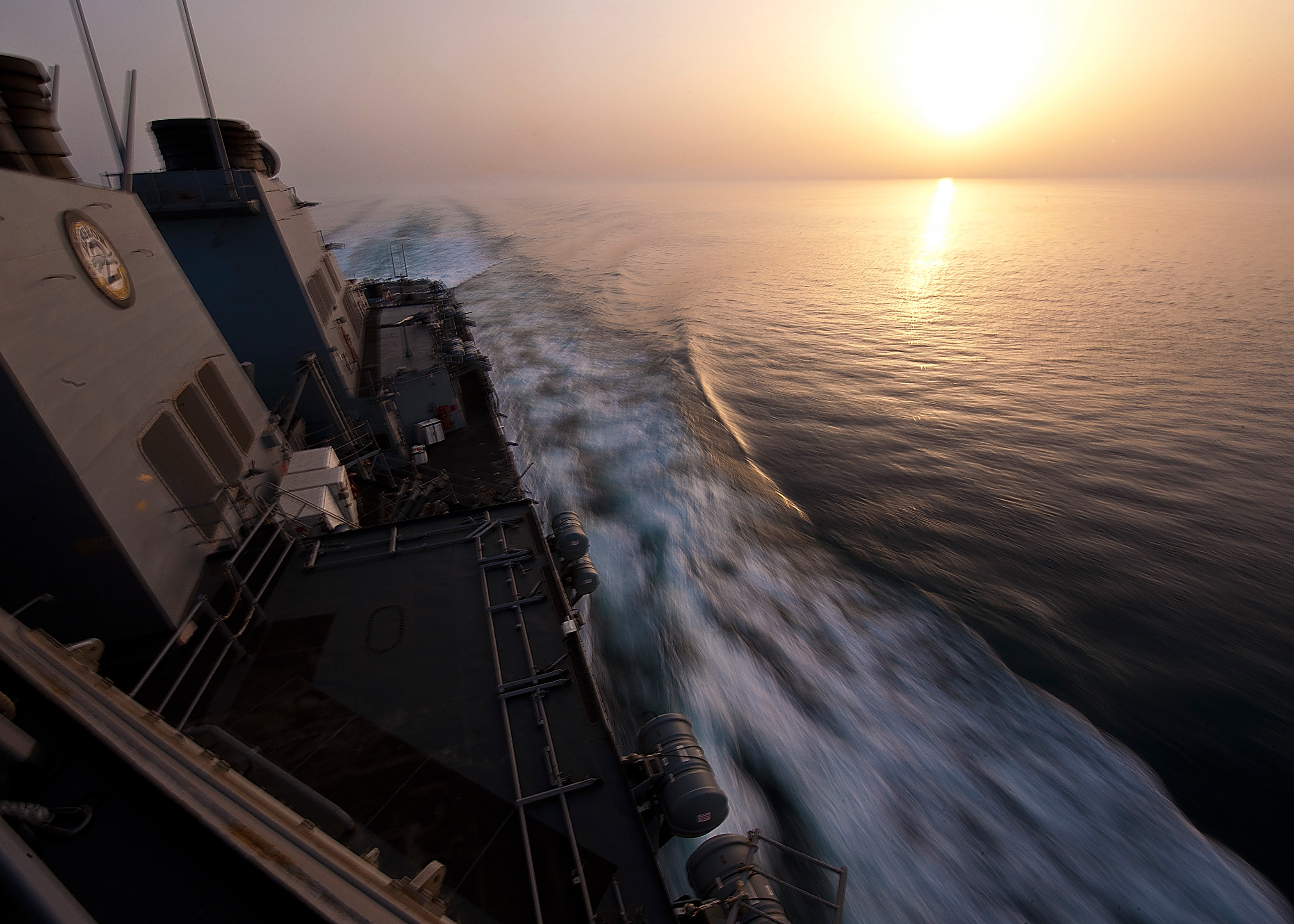 STRAIT OF HORMUZ (May 11, 2012) The guided-missile destroyer USS Porter (DDG 78) transits the Strait of Hormuz. Porter is deployed to the U.S. 5th Fleet area of responsibility conducting maritime security operations, theater security cooperation efforts and support missions as part of Operation Enduring Freedom. (U.S. Navy Photo by Mass Communication Specialist 3rd Class Alex R. Forster/Released) 120511-N-WO496-006 Join the conversation navylive.dodlive.mil